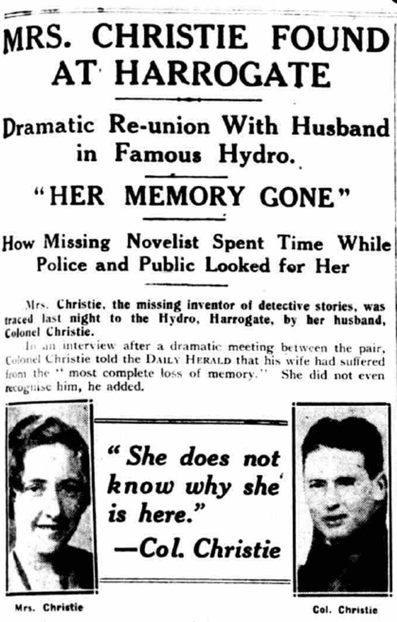 Newspaper article about Archibald Christie and his wife Agatha Christie at Harrogate